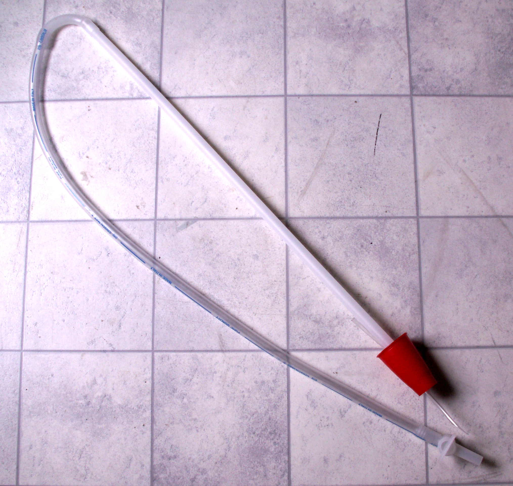 A siphon. These can be used for making beer (siphoning needs to be done after the first and second fermentation to seperate residu from the beer).